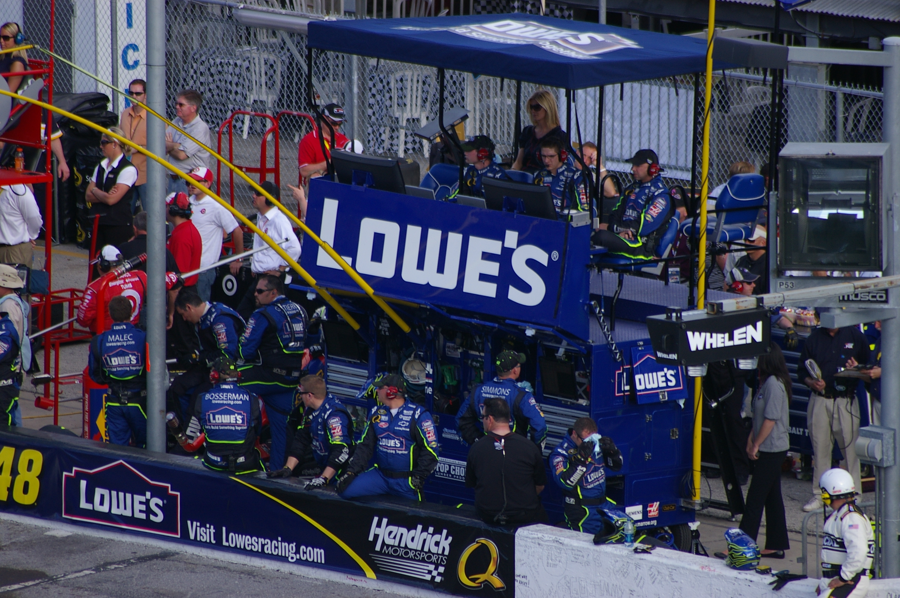 Pit crew and Jimmie's wife